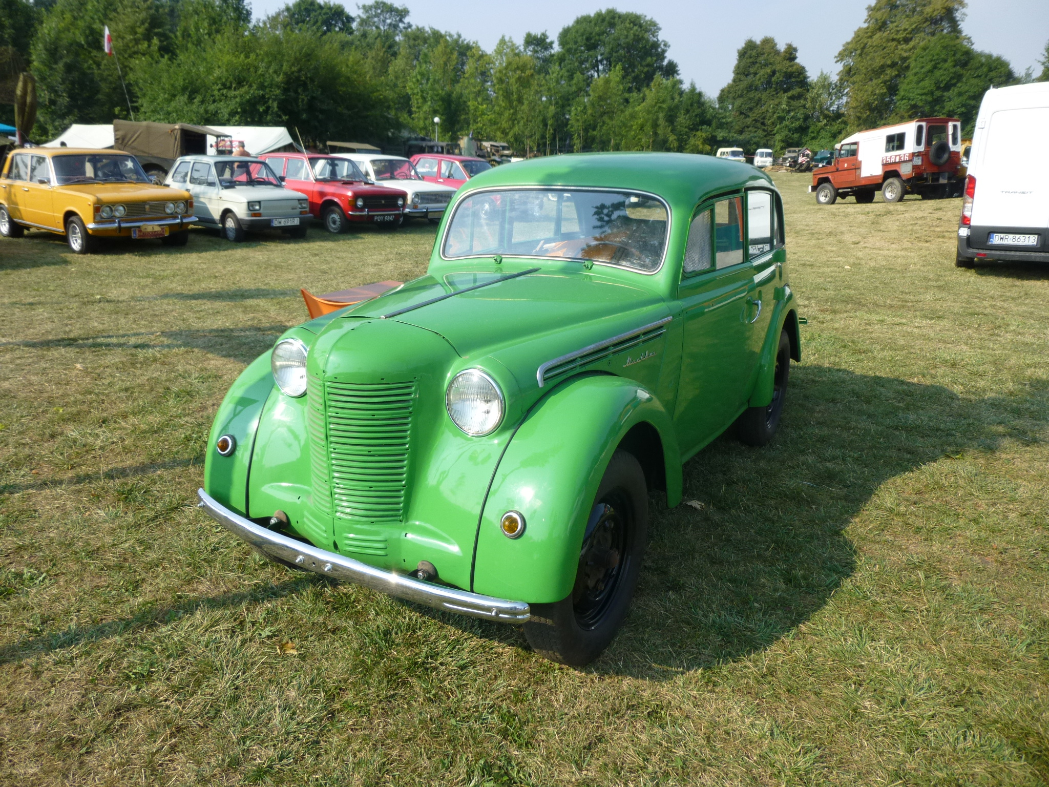 Moskvich 400 at 2015 Motoclassic Wrocław